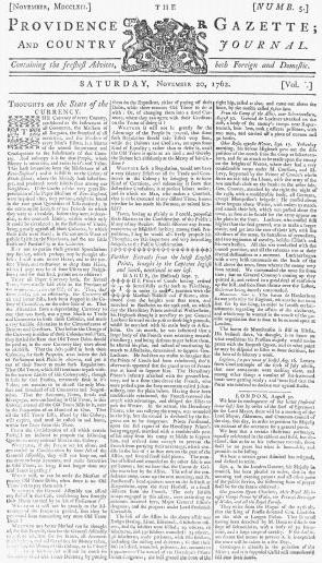 The Providence Gazette; And Country Journal; Date: 11-20-1762; (Providence, Rhode Island)